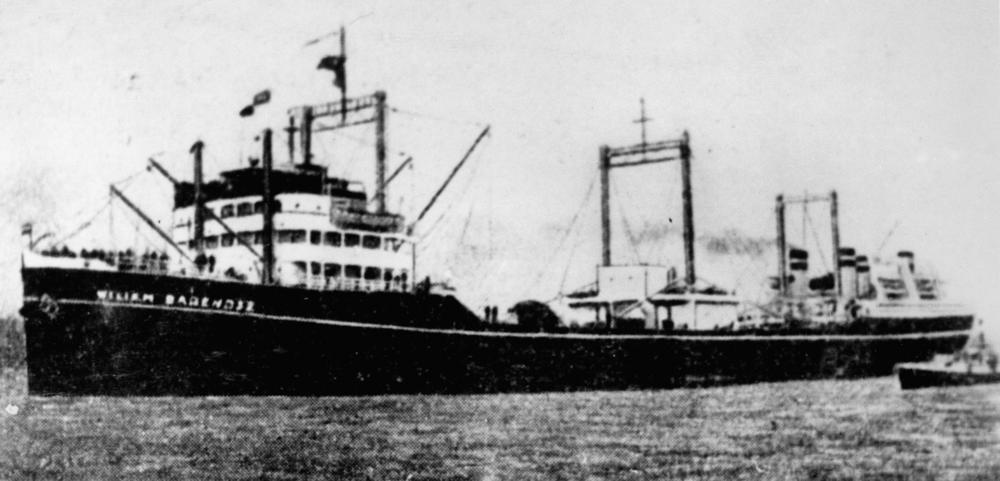 Willem Barendsz (ship) Ex. Pan Gotha, Dutch whaling factory ship, 10,509 Tons. In 1946 became the first Dutch whaler to make the trip to the Antarctic. (Description supplied with photograph.).